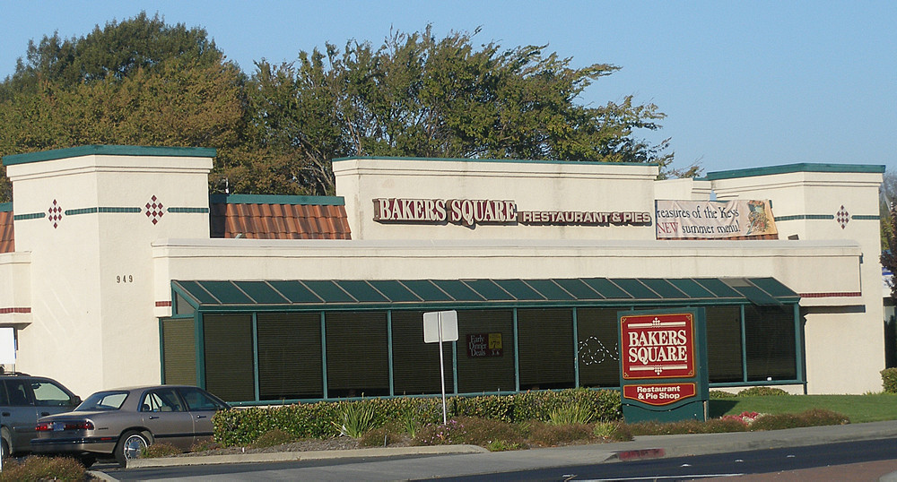 A Bakers Square casual dining restaurant in Redwood City.